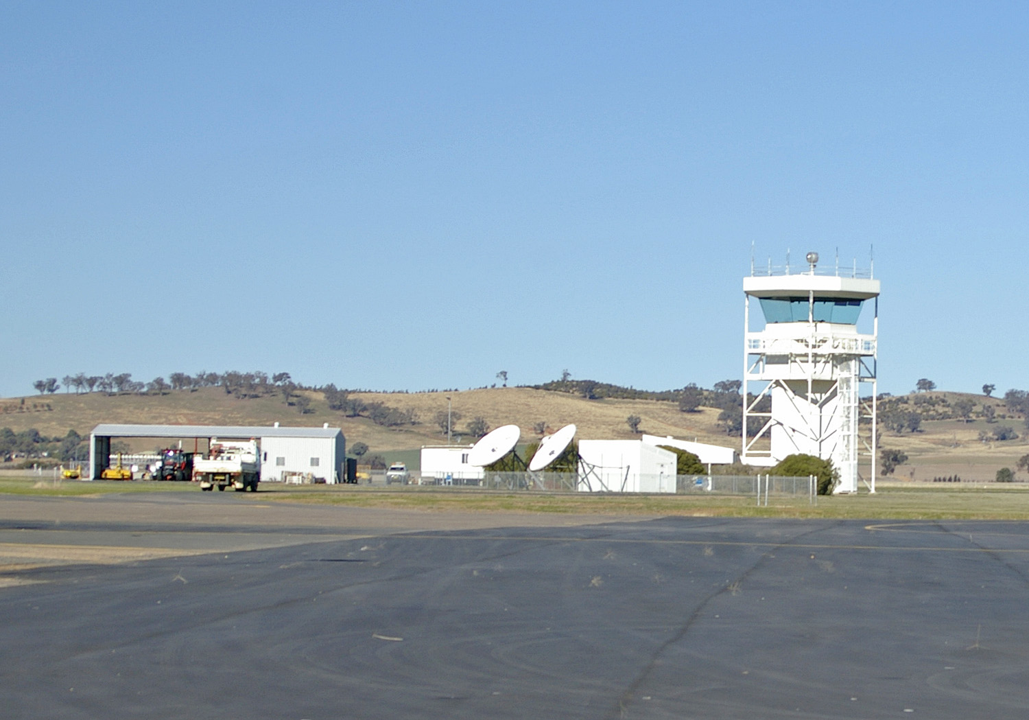 Disused Wagga Wagga Airport Control Tower (Opened in 1966 - 1996 but reopened for one day on the 22nd November, 2001[1])